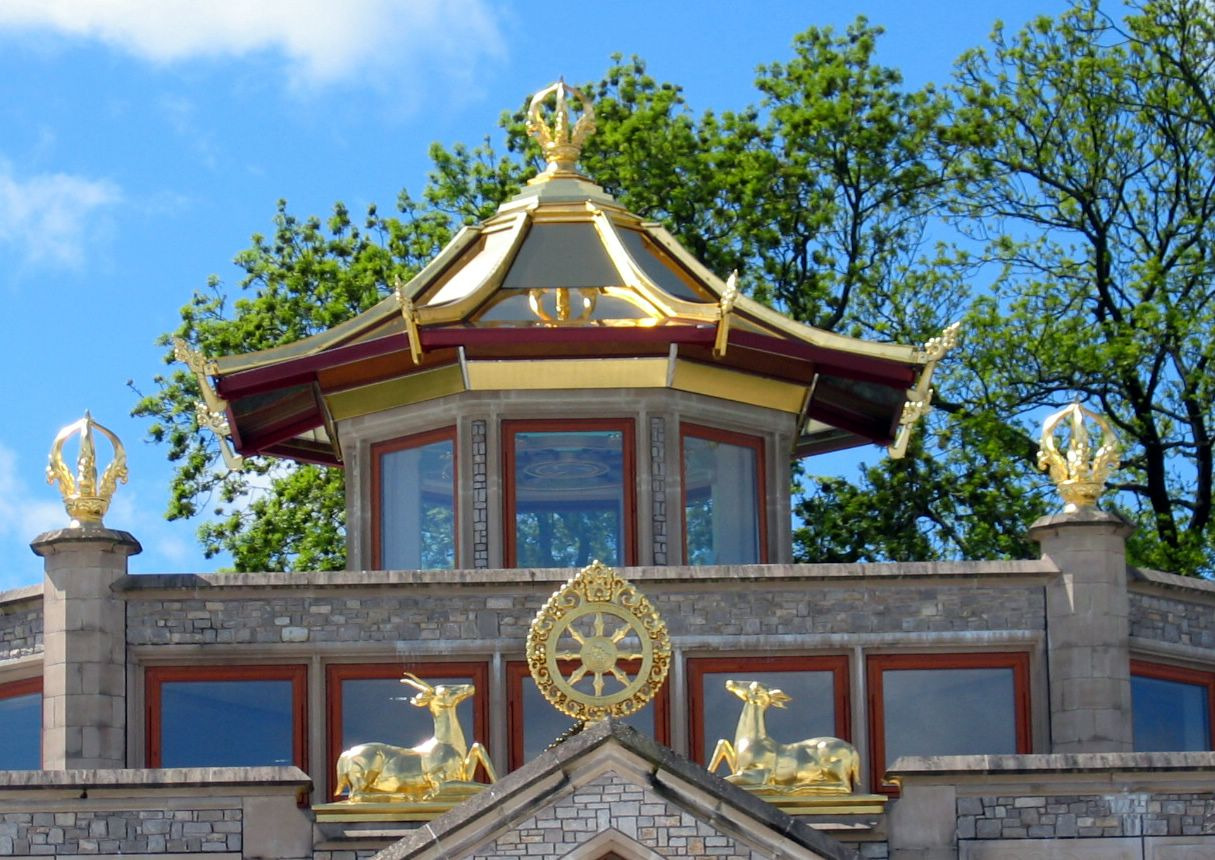 Kadampa Buddhist Temple, Ulverston, England